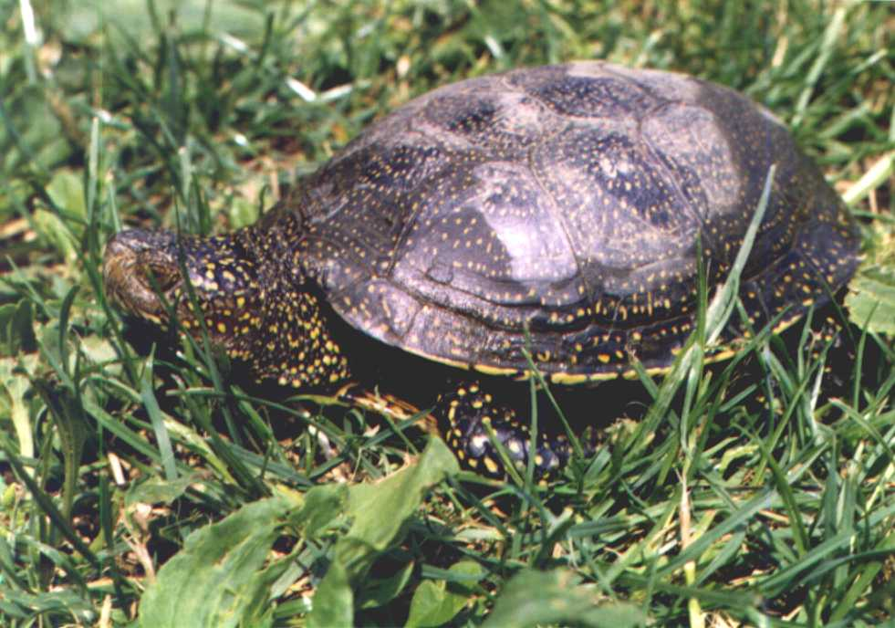 Emys orbicularis from Narure resevation wiki:Tajba near wiki:Streda nad Bodrogom in east Slovakia